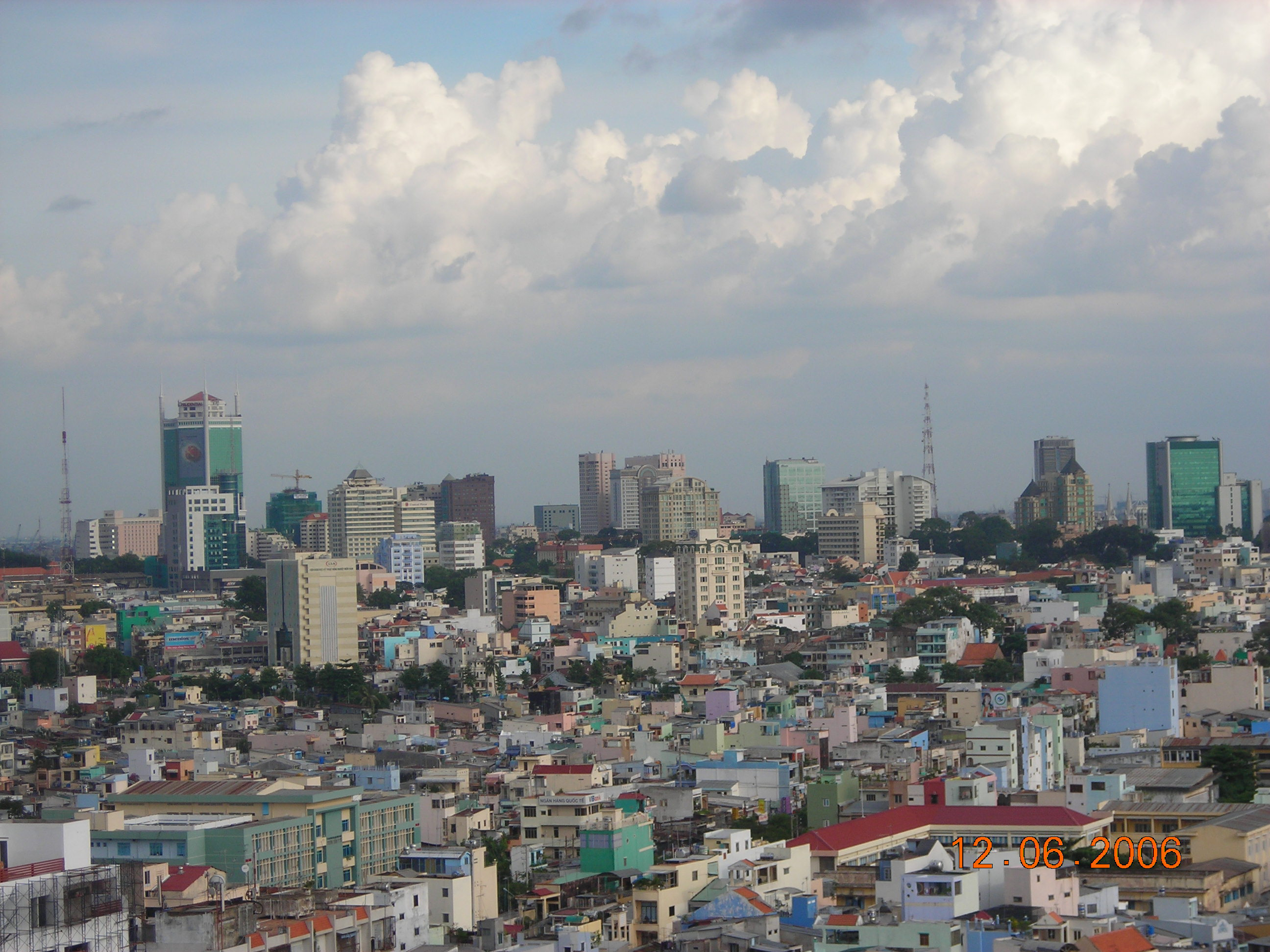 Saigon skyline view from Binh Thanh district